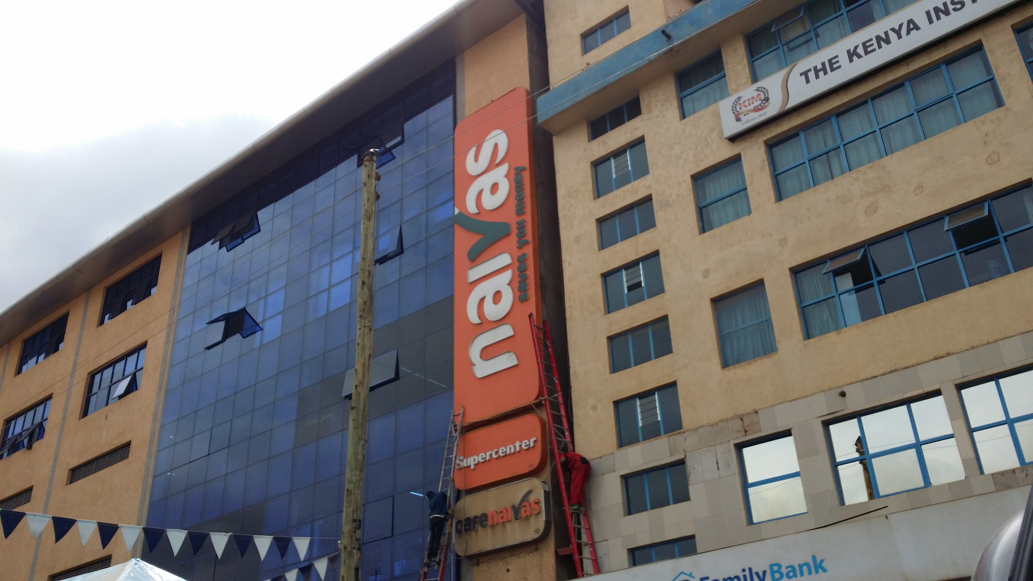 Buildings at Machakos Kiswahili: Mijengo ya Biashara, Machakos